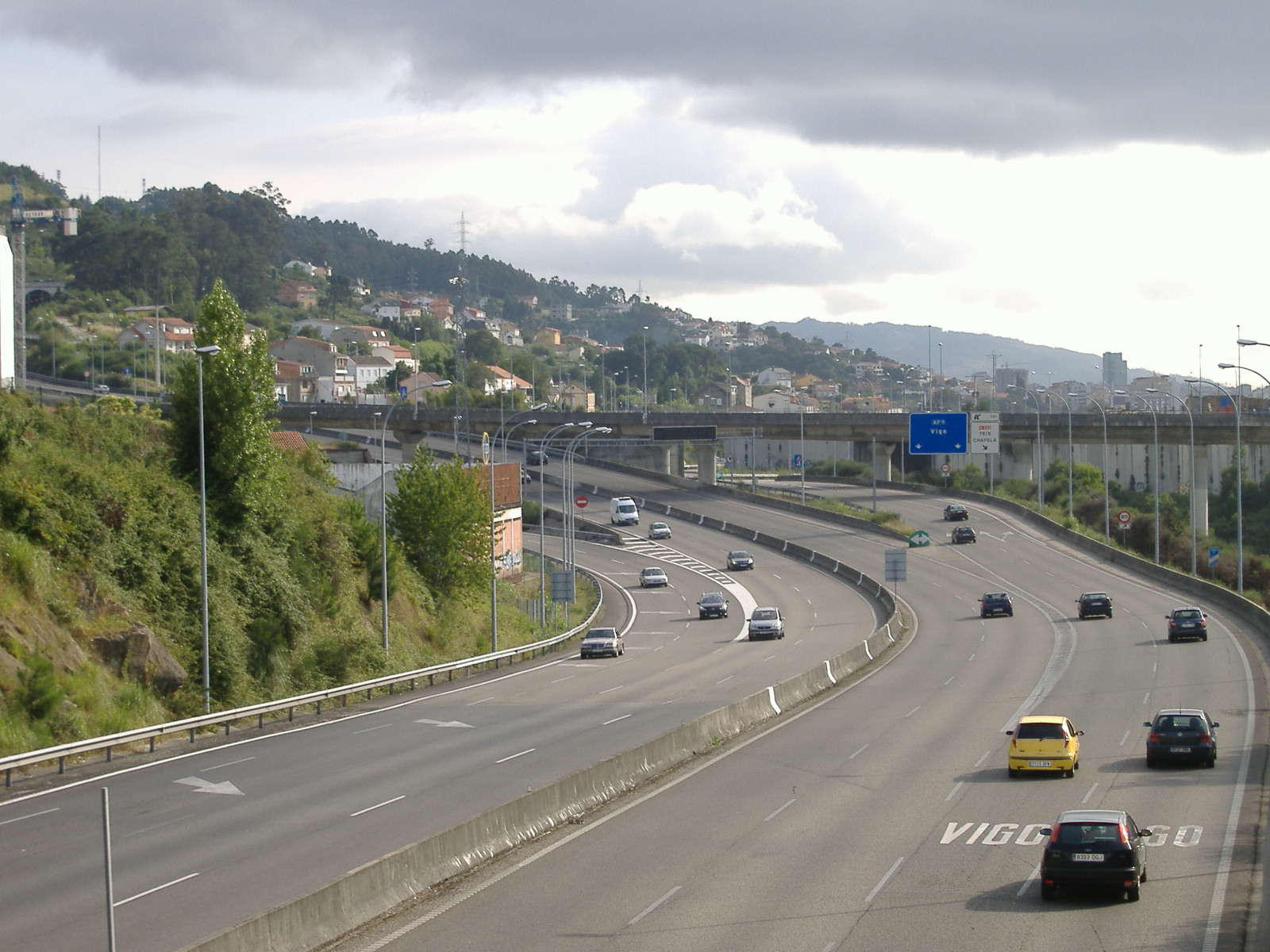 View of the toll highway Ap9 passing through Chapela, towards Vigo and Tui.